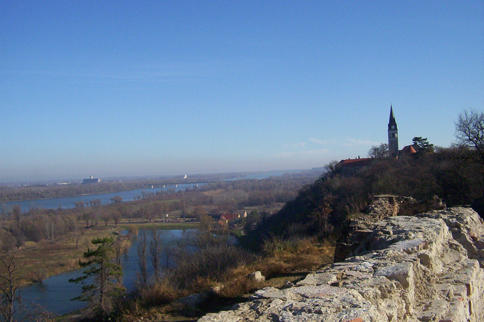 View of Bačka Palanka from Ilok fortress.